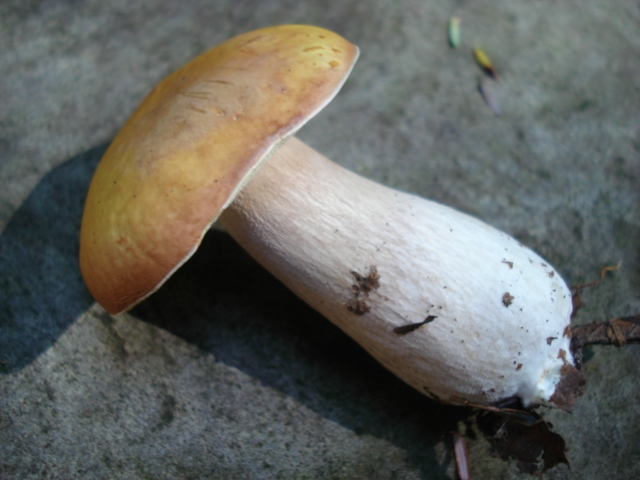 Boletus nobilissimus Both & R. Riedel Location: Sullivan Co., Pennsylvania, USA Observation Notes: Entire stalk deeply reticulate. No staining. Cap surface wrinkled. KOH profile: negative on all context, cap surface amber. Hemlock mixed with hardwoods. No oak. Third and fourth photos show a second specimen showing the reticulate stalk with a very similar widely spaced netting on the bottom part. This one shows the this margin or sterile tissue that BRB mention for this species. For more information about this, see the observation page at Mushroom Observer.